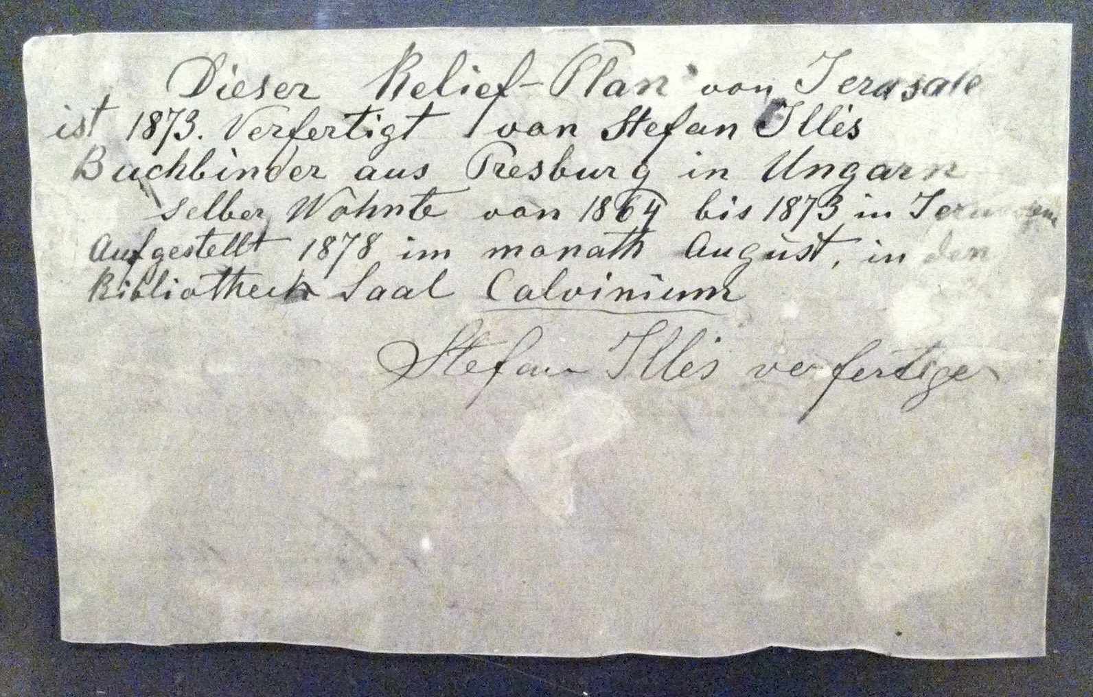 Illes Relief at the Tower of David Museum